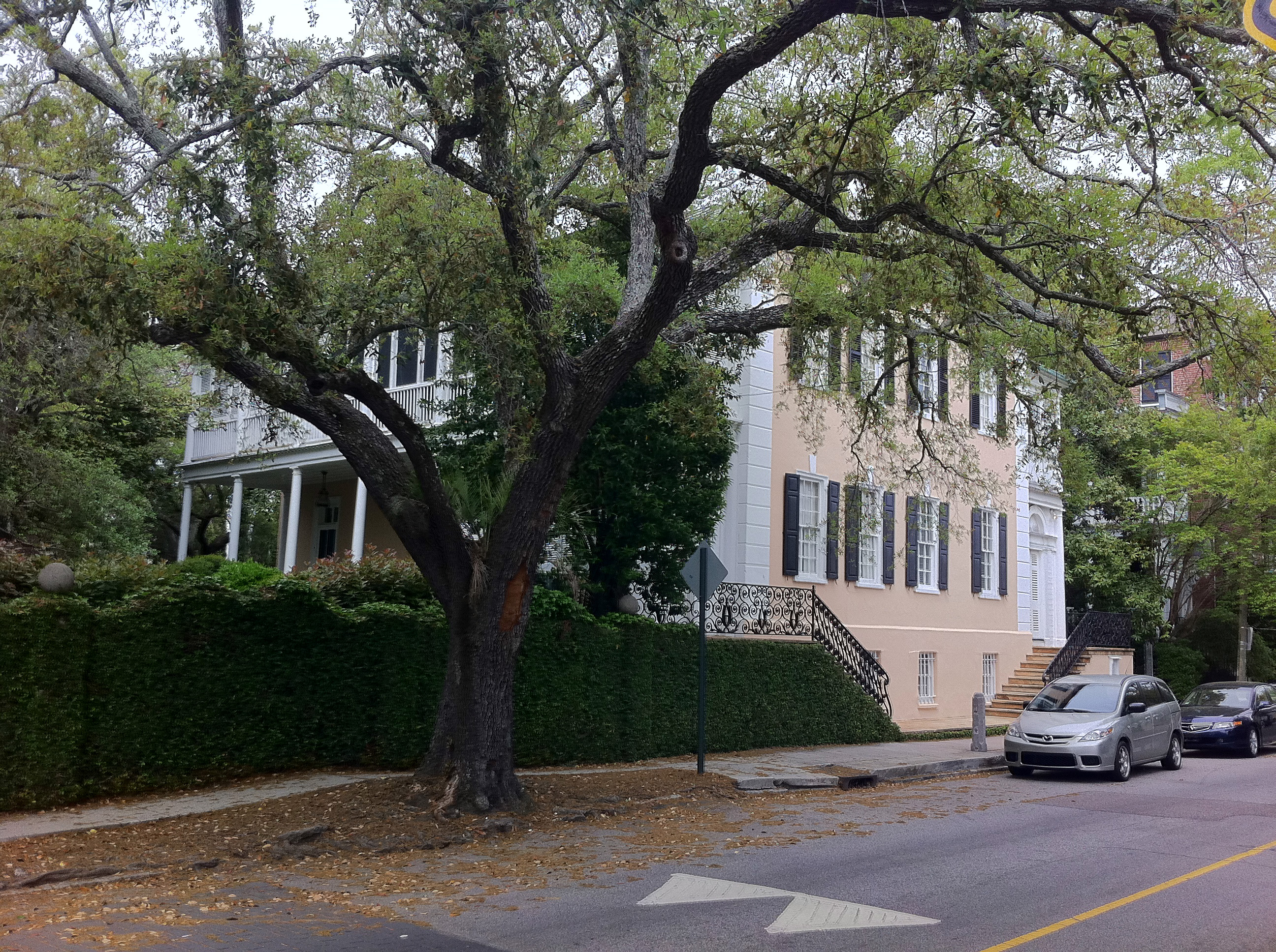 The Col. William Rhett House, 54 Hasell St., Charleston, SC. The plaque on the house, placed by The Preservation Society of Charleston in 2001, states "circa 1712-1720. This residence was constructed by Col. William Rhett (1666-1722), a prominent Charleston merchant and colonial militia leader. ... In 1807 the property was purchased by Christopher Fitzsimmons, a wealthy wharf owner. His grandson, Wade Hampton, III (1818-1902), Confederate Lieutenant General, Governor of South Carolina (1876-1879), and United States Senator (1879-1891) was born in this house in 1818."